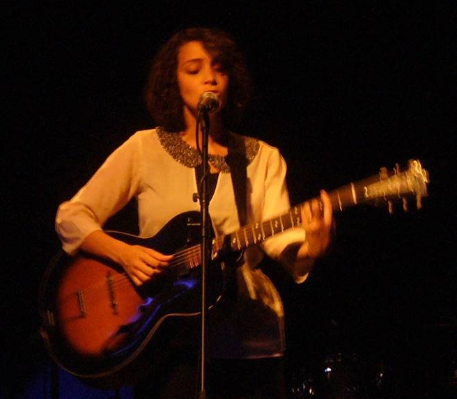 Gaby Moreno concert in Reutlingen, Germany - June 2012